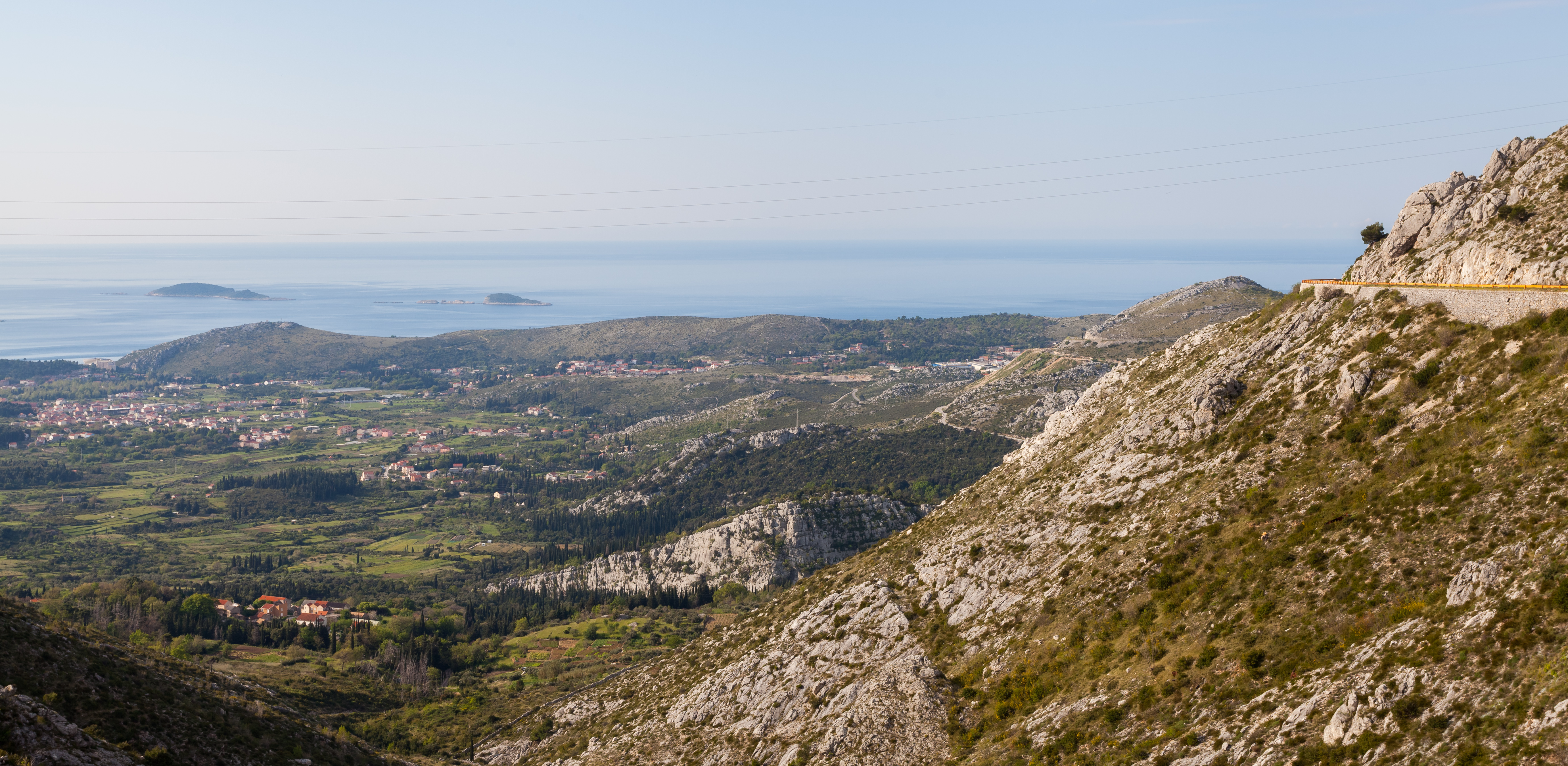 Gornji Brgat, Croatia